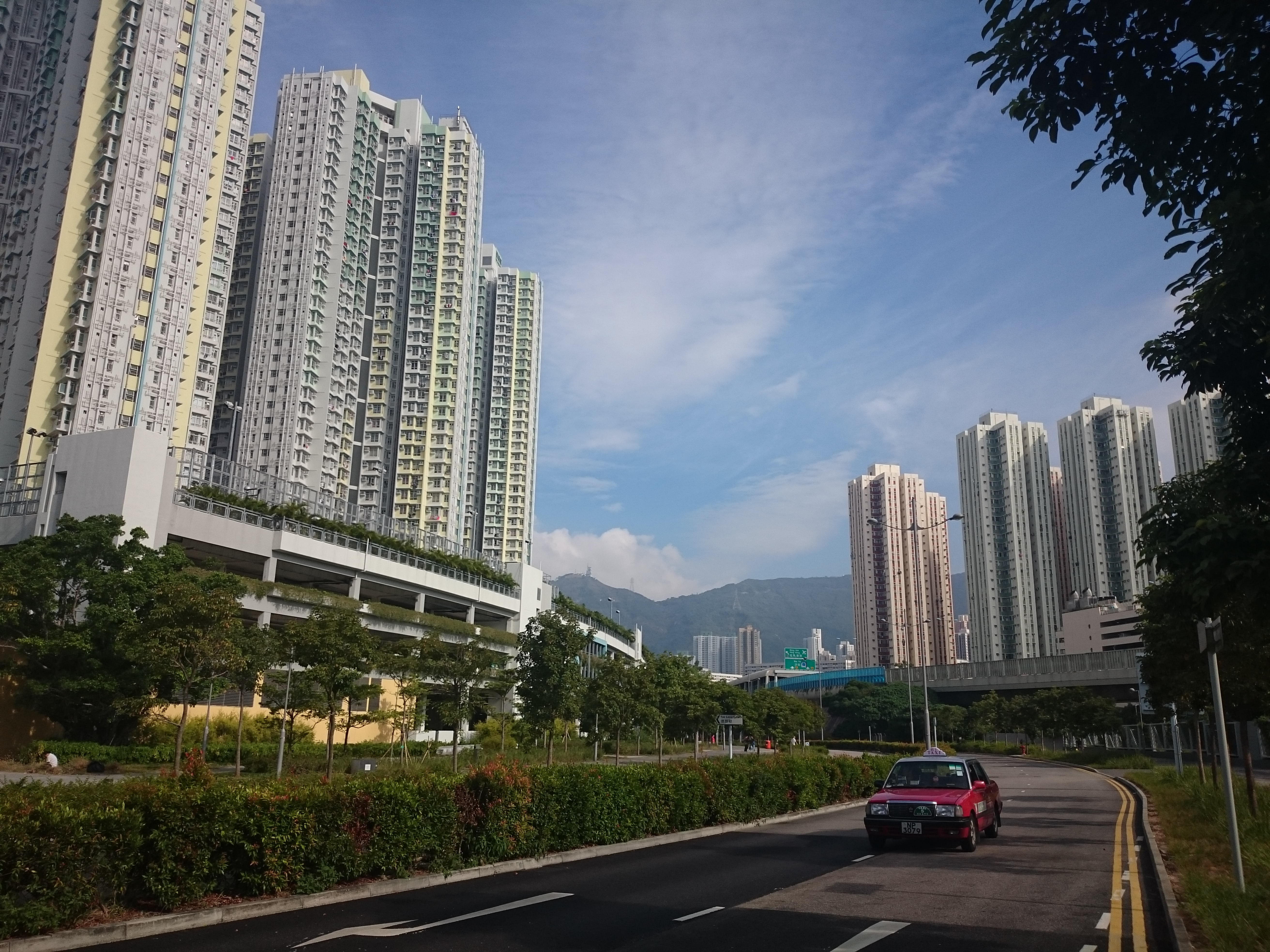 Shing Kai Road